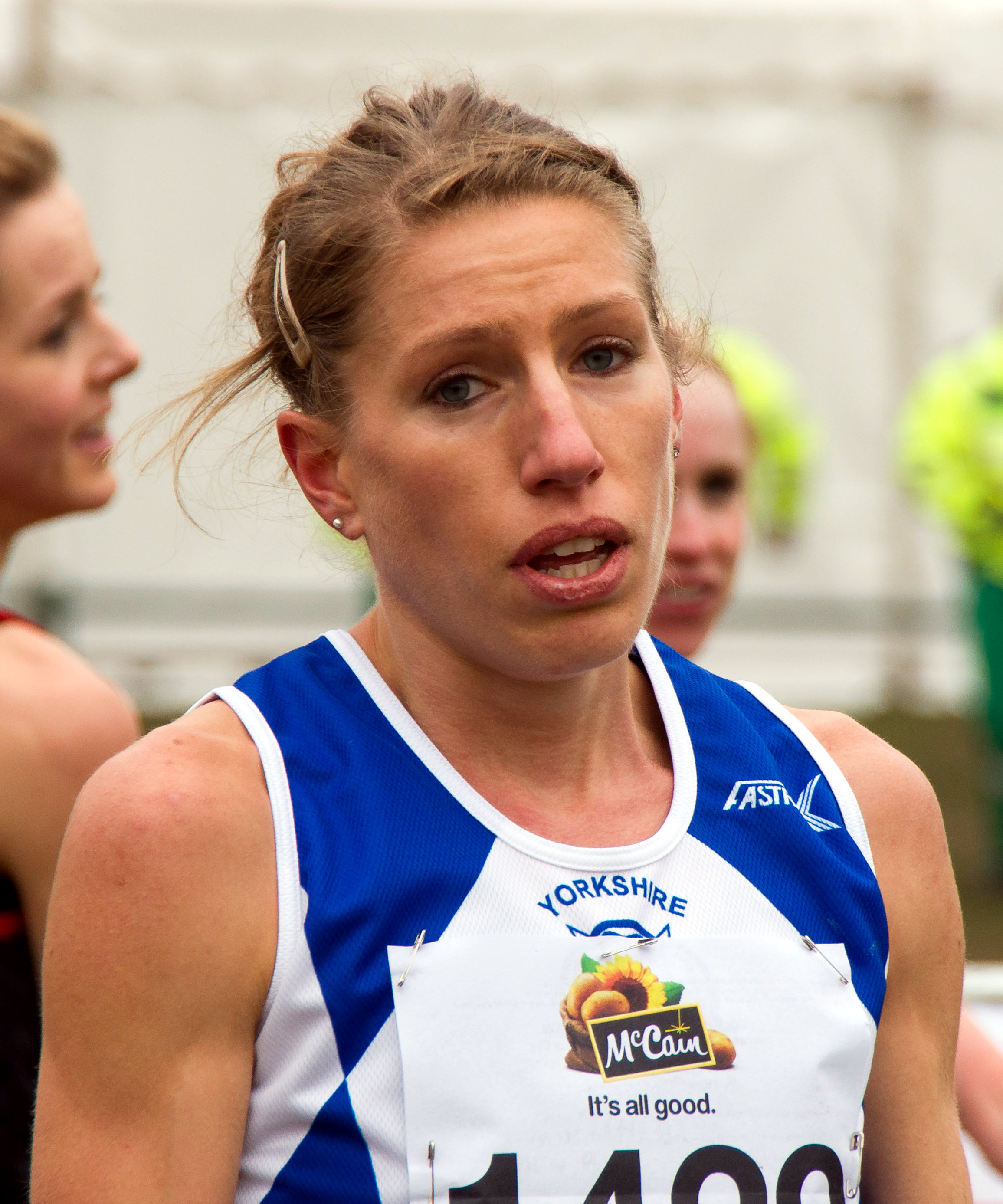 crop of photo of Hatti Dean (Archer) at the UK Inter Counties cross country in 2011, colour levels adjusted.